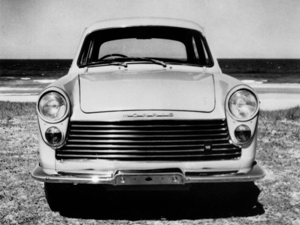 Morris Major Elite - built by BMC (Australia) 1962-1964